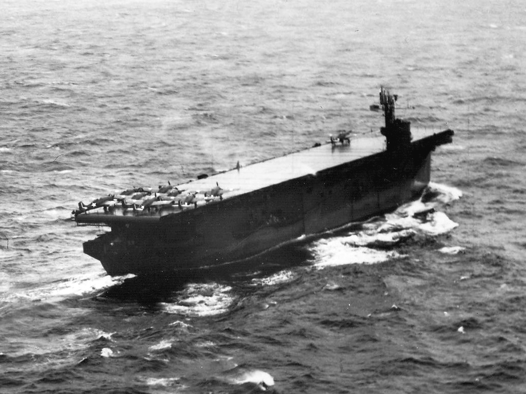 The U.S. Navy escort carrier USS Nassau (ACV-16) underway with a number of Grumman F4F-4 Wildcats of Composite Squadron 21 (VC-21) on her forward flight deck, in preparation for the invasion of Attu Island, in May 1943. Nassau was redesignated CVE-16 on 15 July 1943.